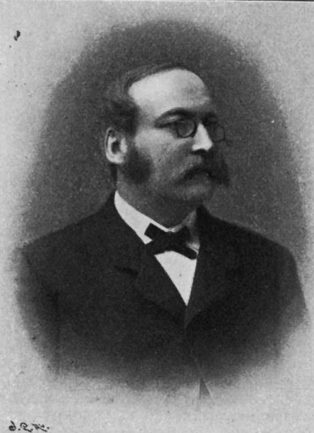 Portrait of Magnus Ragnar Bruzelius (1832-1902), swedish professor.